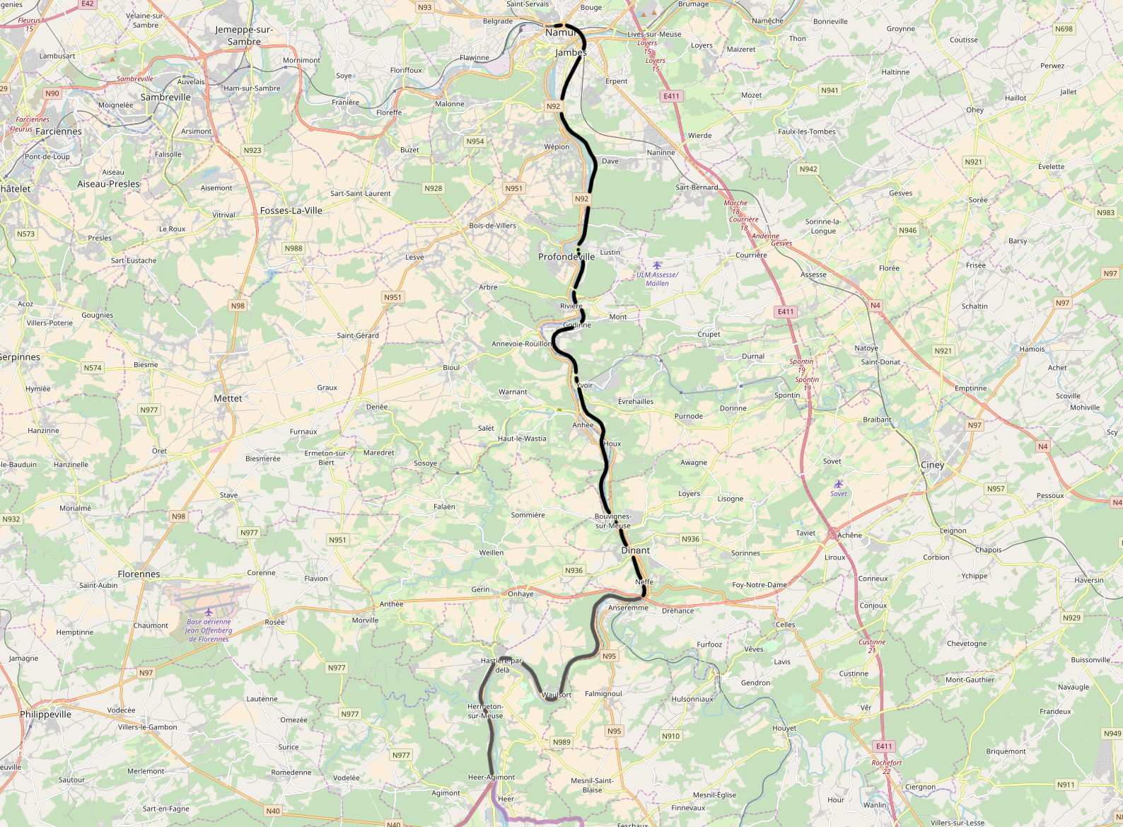 Belgian Railway Line 154, Namur - Givet